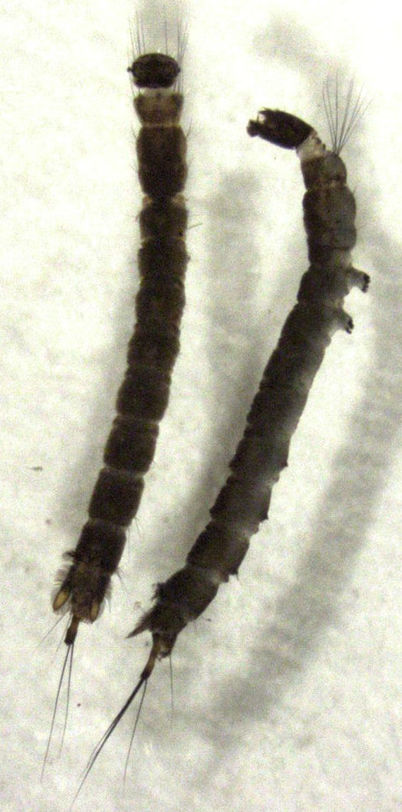 Larvae of Dixella sp. from a pond in Tamaki Campus (Auckland, New Zealand). Photo taken on 2001-01-05.